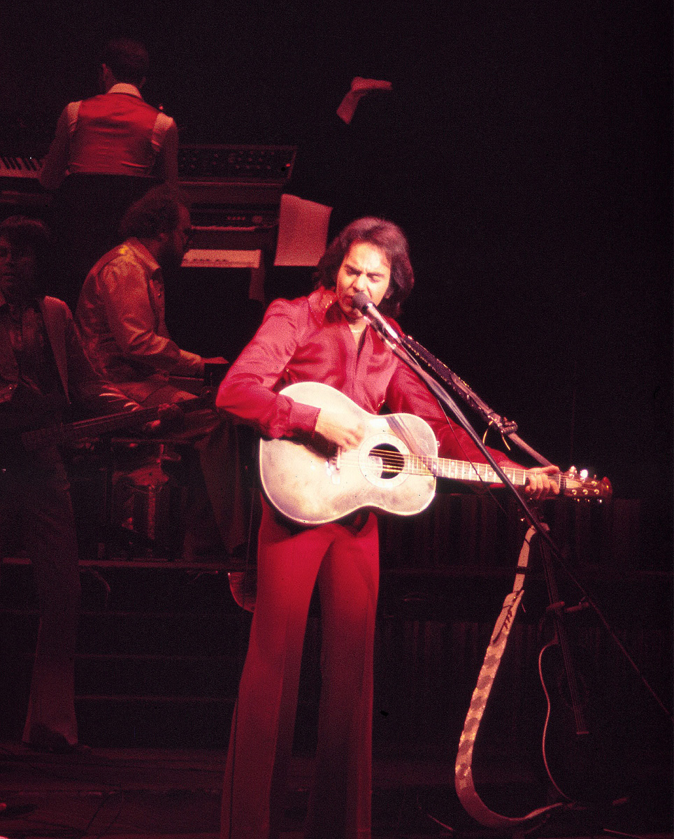 Neil Diamond opens the Aladdin Theater for the performing Arts July 2nd 1976